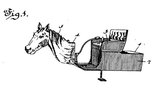 Patent diagram for "Horsey Horseless", a car with a horse's head, from 1899